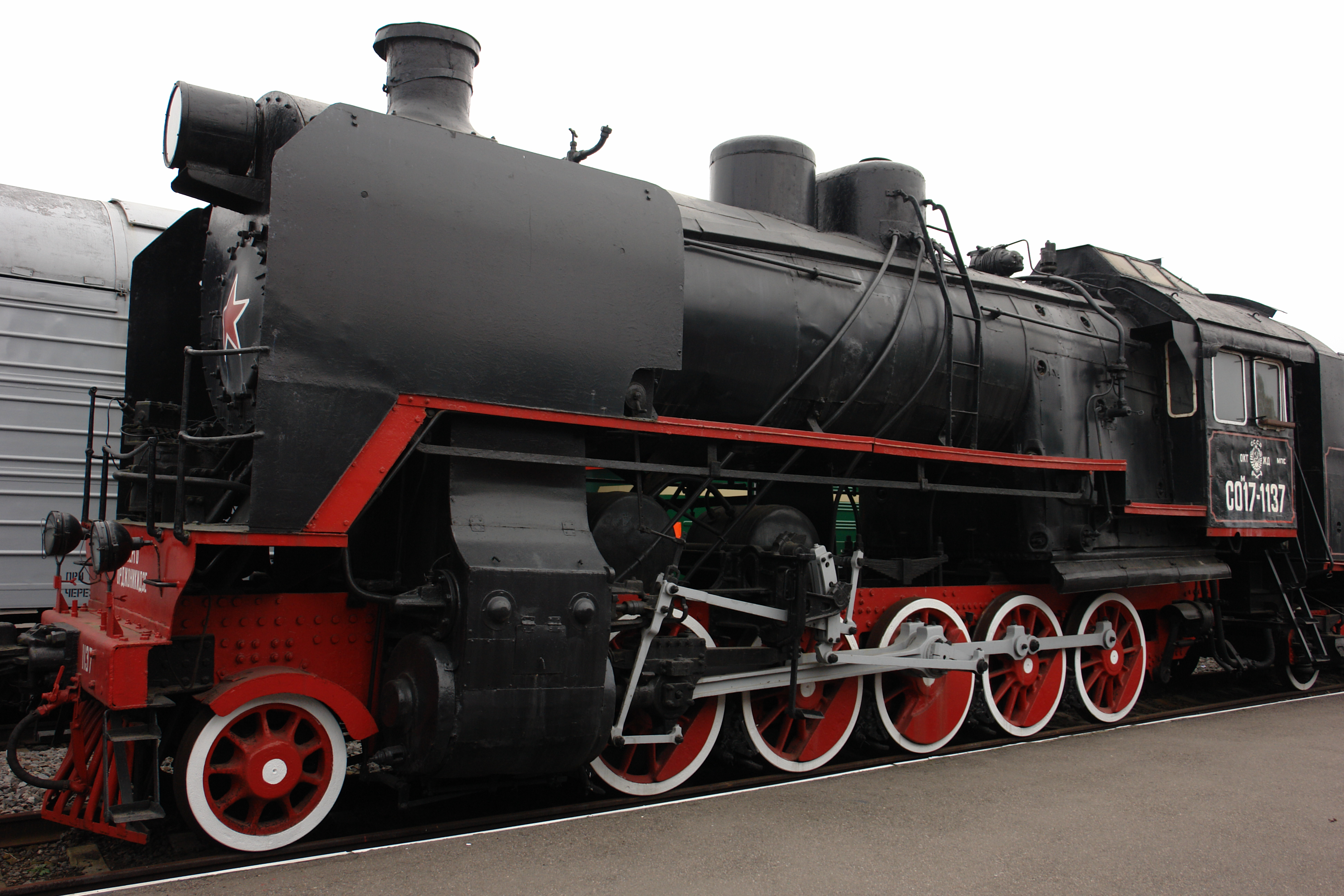 Steam locomotive SO17-1137 Name "Sergо Ordzhonikidze" (no additional information avaible)